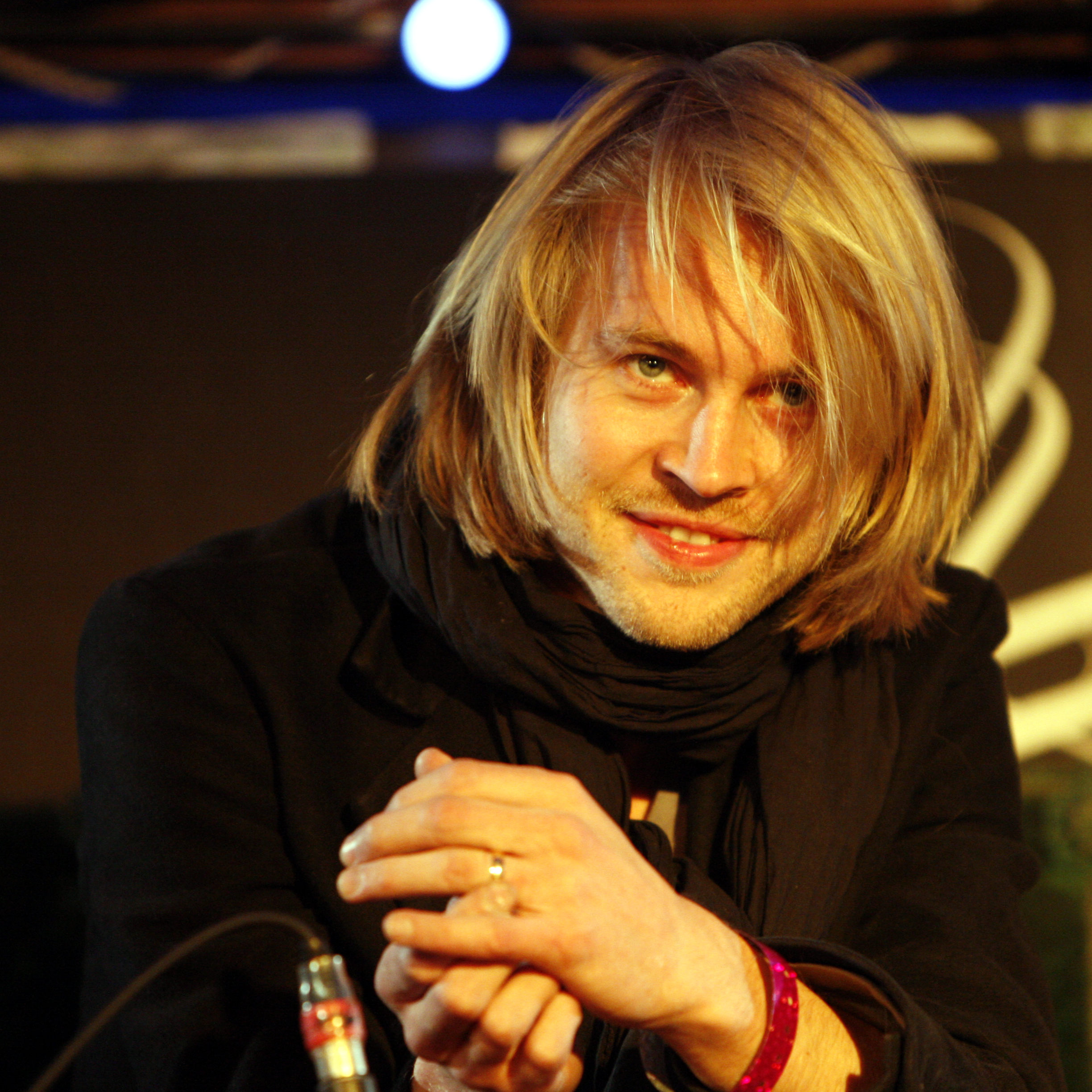 Peter Von Poehl at the Eurockéennes of 2007